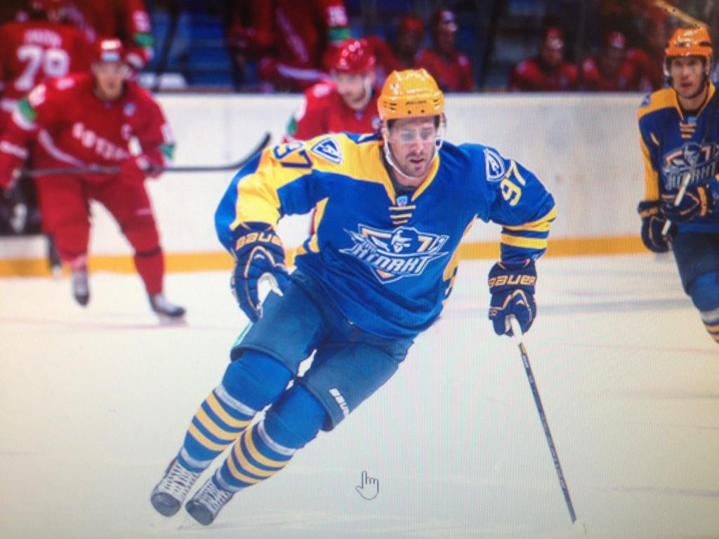 Matt Gilroy, American, playing as a member of the Atlant Moscow Oblast of the Kontinental Hockey League (KHL). Gilroy's one-year deal with the Russian club started on June 25, 2014.